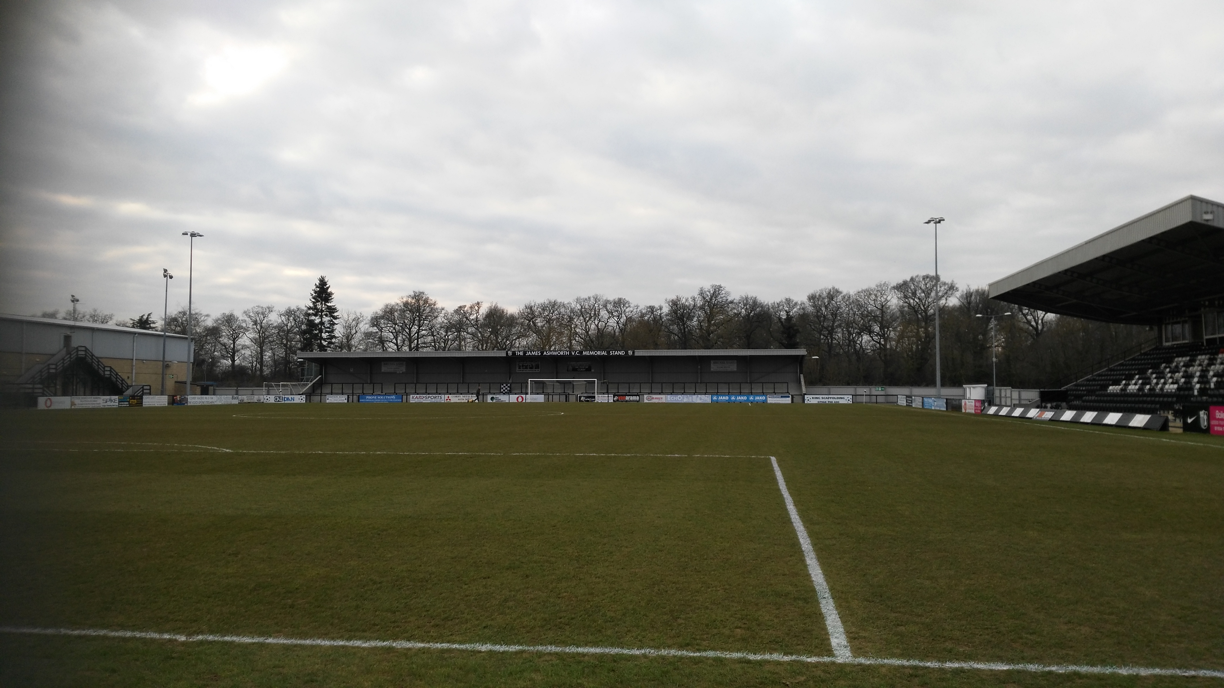 Corby town fc james ashworth vc memorial stand spion kop rear of former ground main stand on left hand side